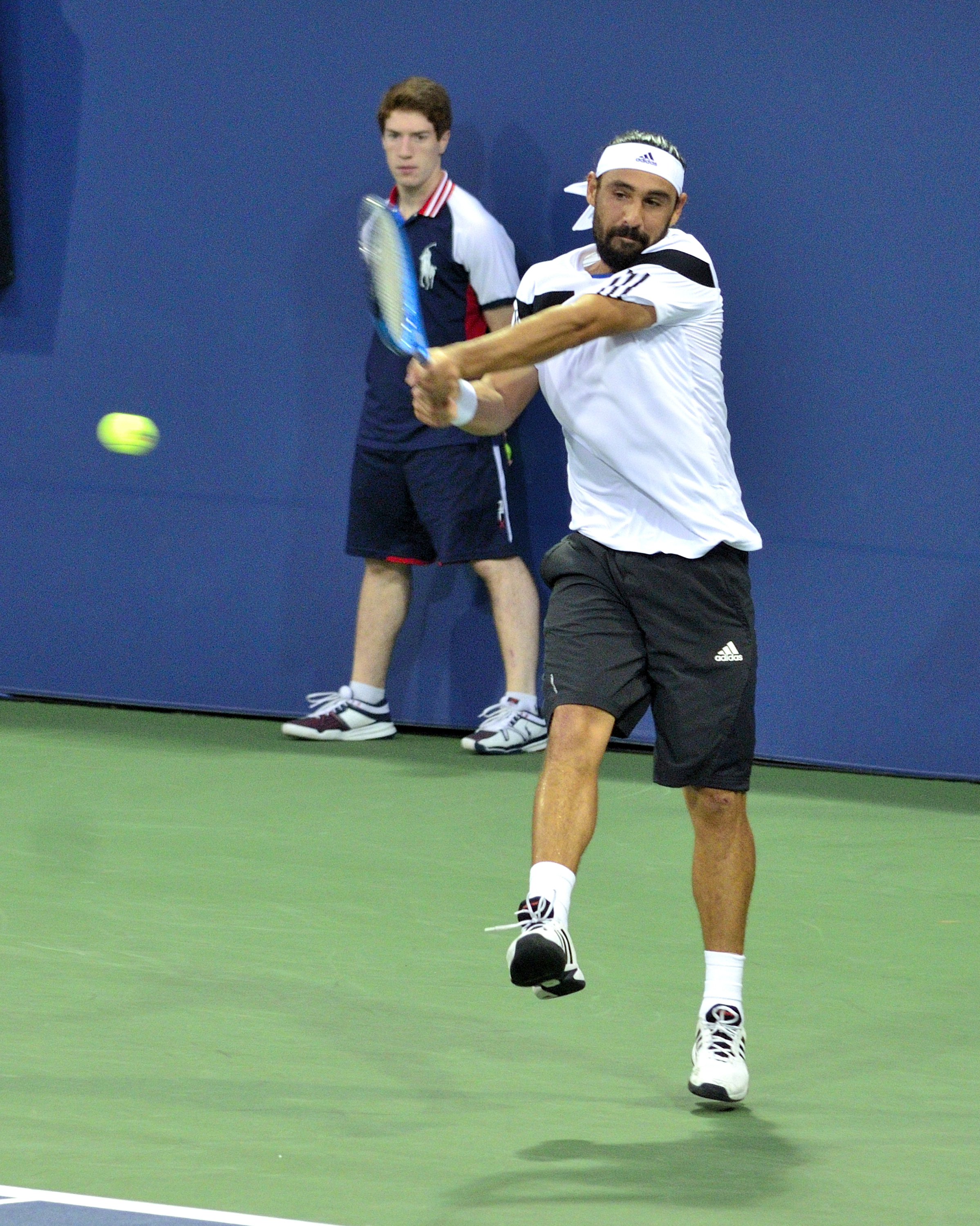 Queens, NY August 30, 2013 Marcos Baghdatis (CYP) def. Kevin Anderson (RSA) Court 17